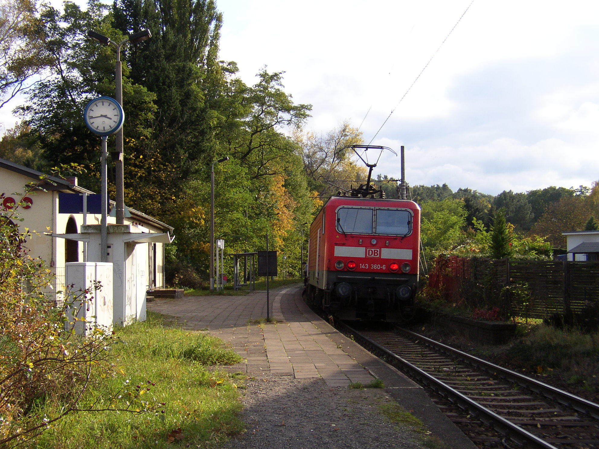 DB 143 360 with train in Caputh-Schwielowsee station.